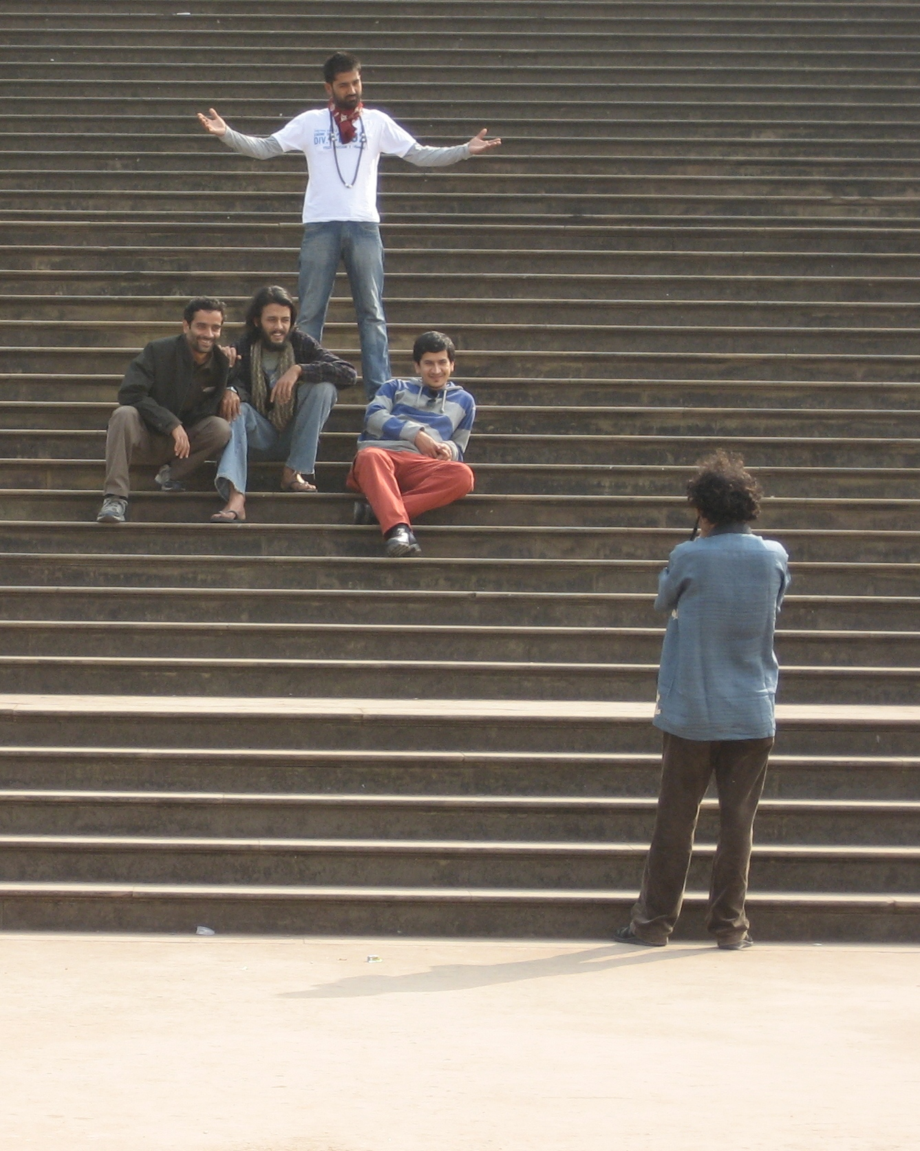 Nepali Theater Artist and Director Sunil Pokharel taking pictures of his students cum actors Praveen Khatiwada, Kamalmani Nepal, Bibhooshan Basnet and Ravindra Singh Baniya during site seeing following a theater festival in Barahampore, India in 2009.